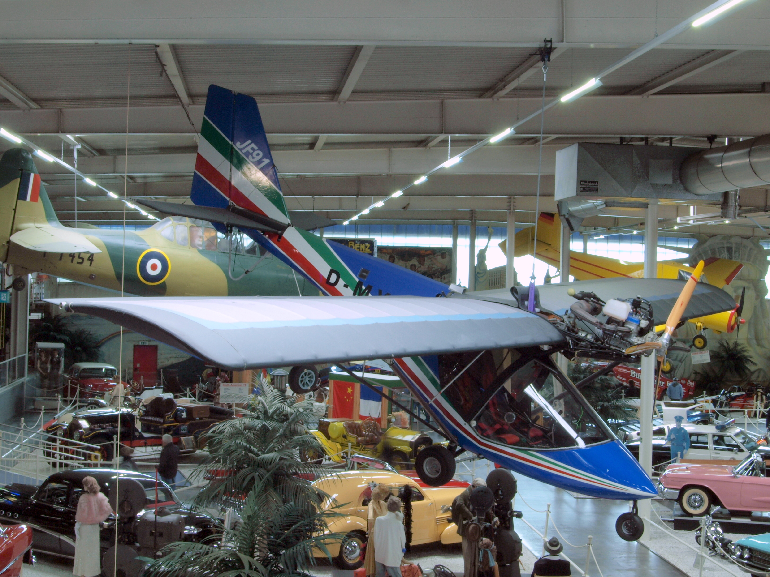 Photographed at the Auto & Technic museum Sinsheim.